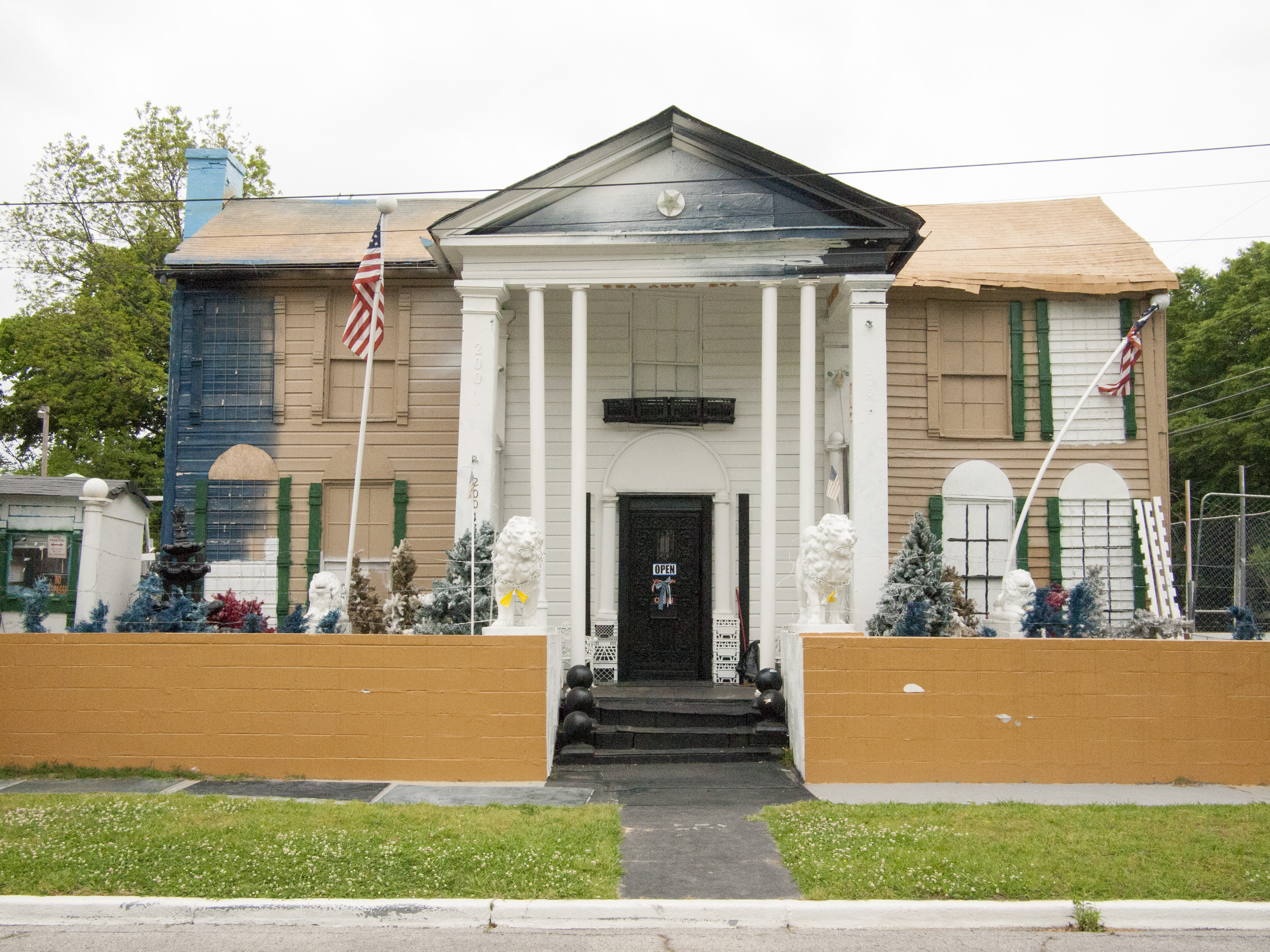 Graceland Too in the afternoon, May 2014